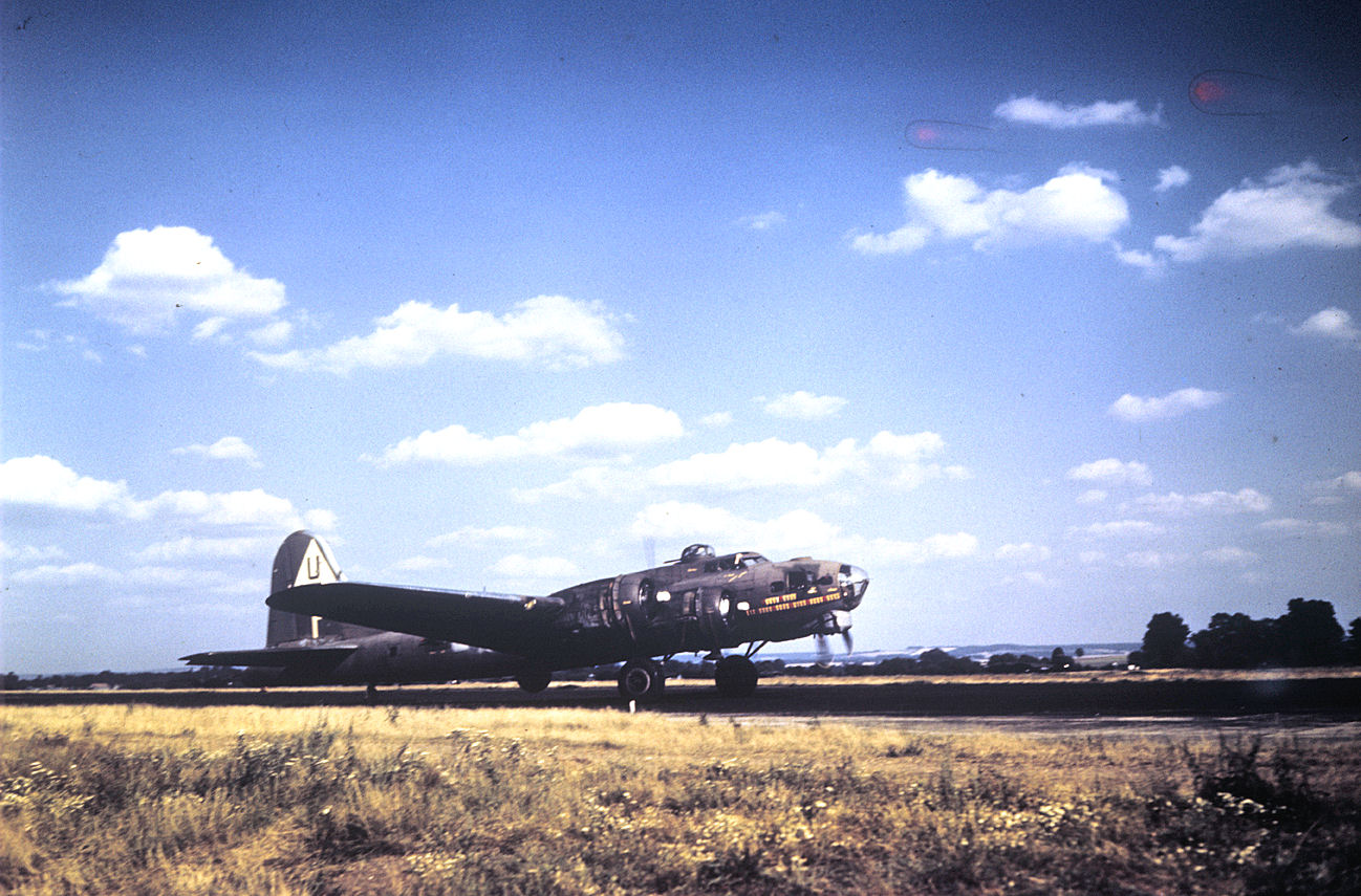 A B-17 Flying Fortress of the 750th Bomb Squadron, 457th Bomb Group at Mount Farm.